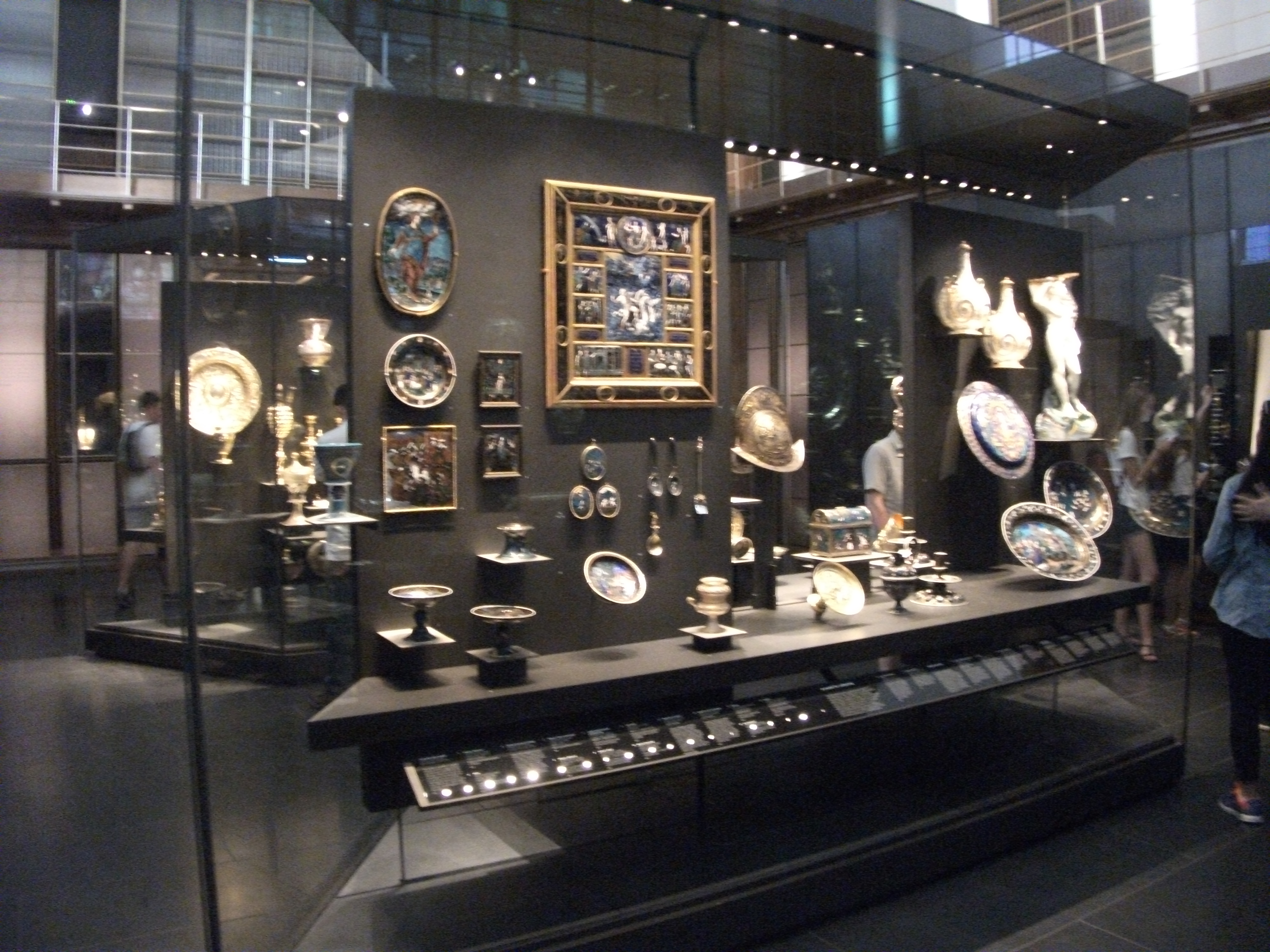 Waddesdon Bequest, Room 2A, British Museum